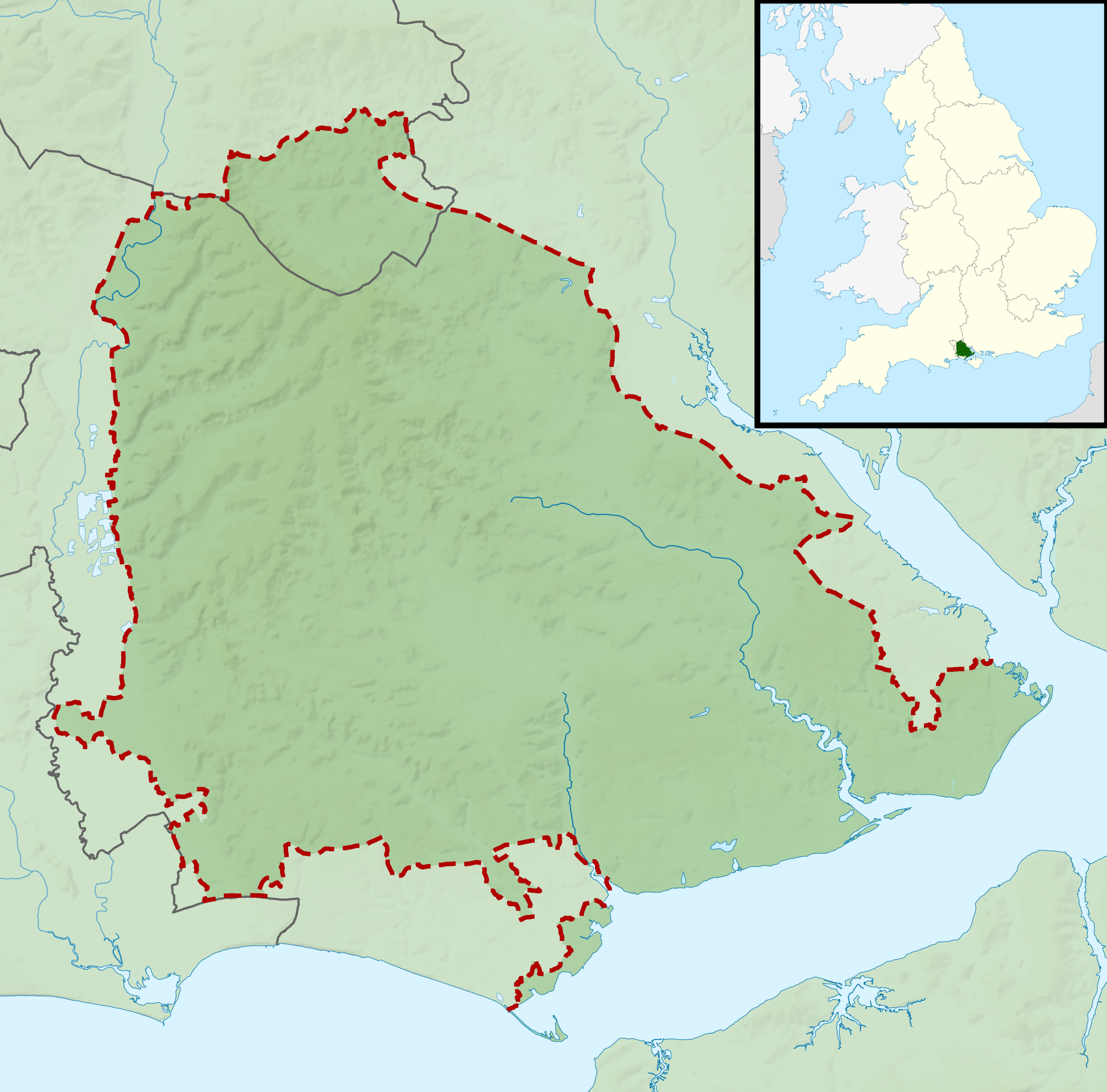 Relief map of the New Forest National Park, UK Equirectangular map projection on WGS 84 datum, with N/S stretched 170% Geographic limits: West: 1.83W East: 1.28W North: 51.04N South: 50.69N